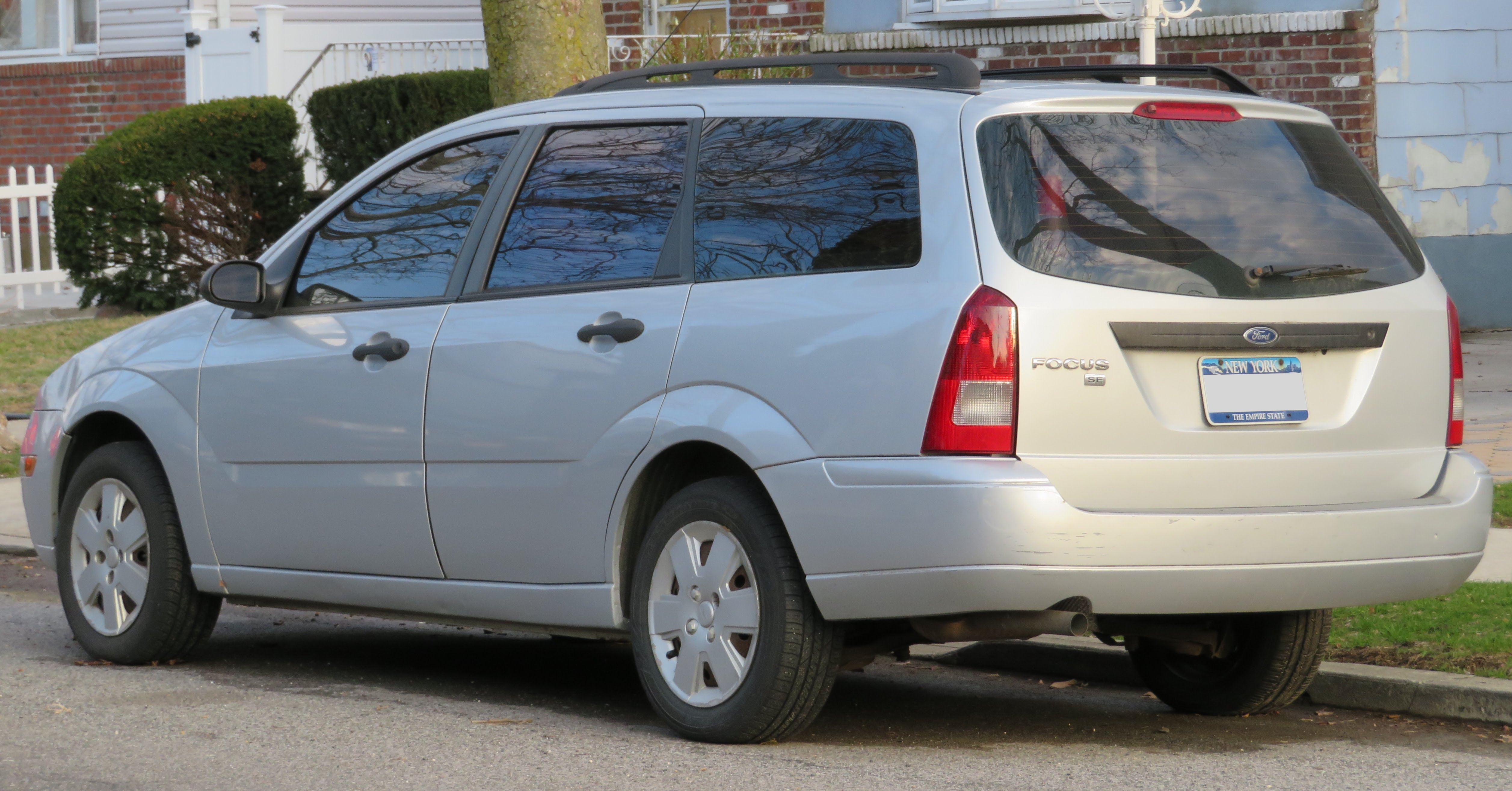 In Queens, New York